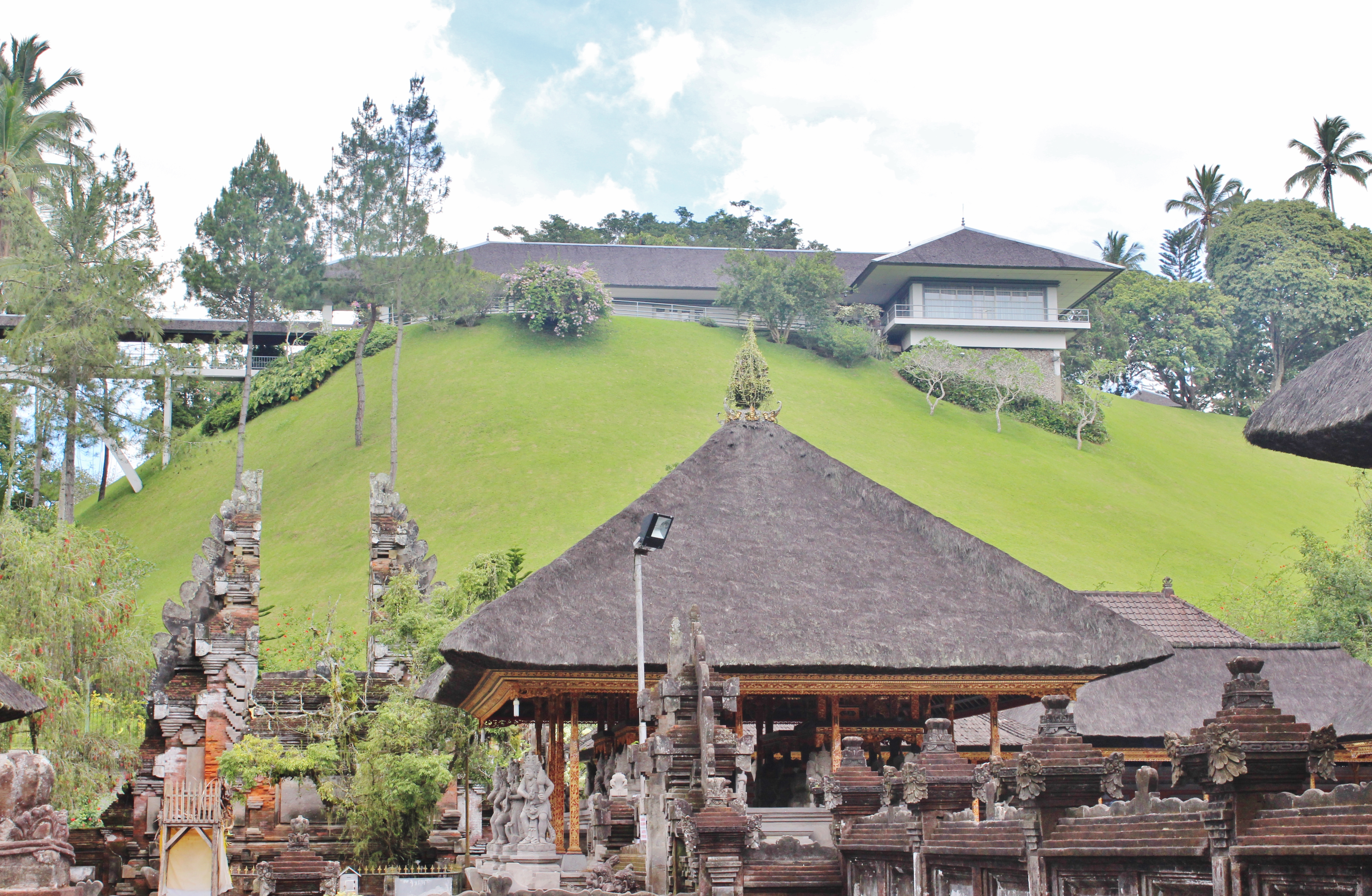 Holy Water Temple Ubud, Bali, indonesia